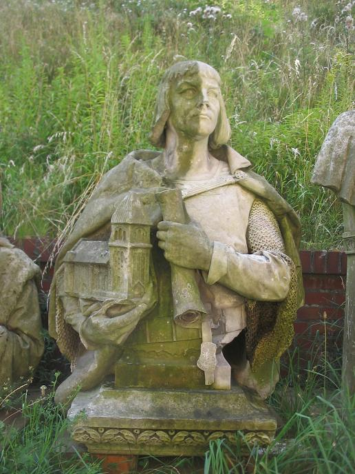 August 2009 test of restorational cleaning of the bust (white part) of the knight Johann Gans, Baron of Putlitz, in the museum courtyard of the Zitadelle Spandau. This was a side bust of the monument group № 3 in the former Siegesallee in Berlin. It shows Johann Gans with the founding charter and a model of the cloister church Marienfliess, of which he was the founding donor. Sculptor: Joseph Uphues, unveiled on 22 March 1898. The cleaning test was carried out by Thomas Propp, sculptor and conservator.